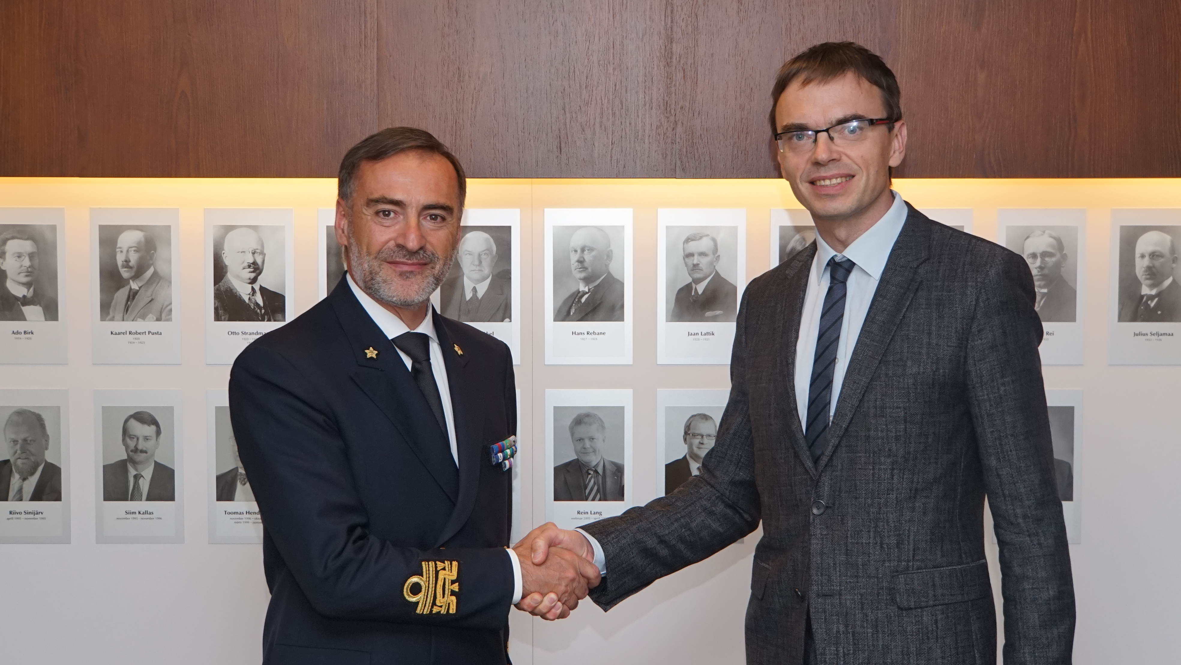 FM Mikser meeting with Naval operation Sophia Commander Rear Admiral Credendino